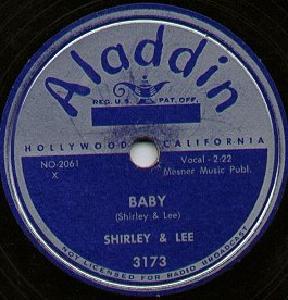 Record label, Aladdin 3173, "Baby", written and performed by Shirley & Lee.